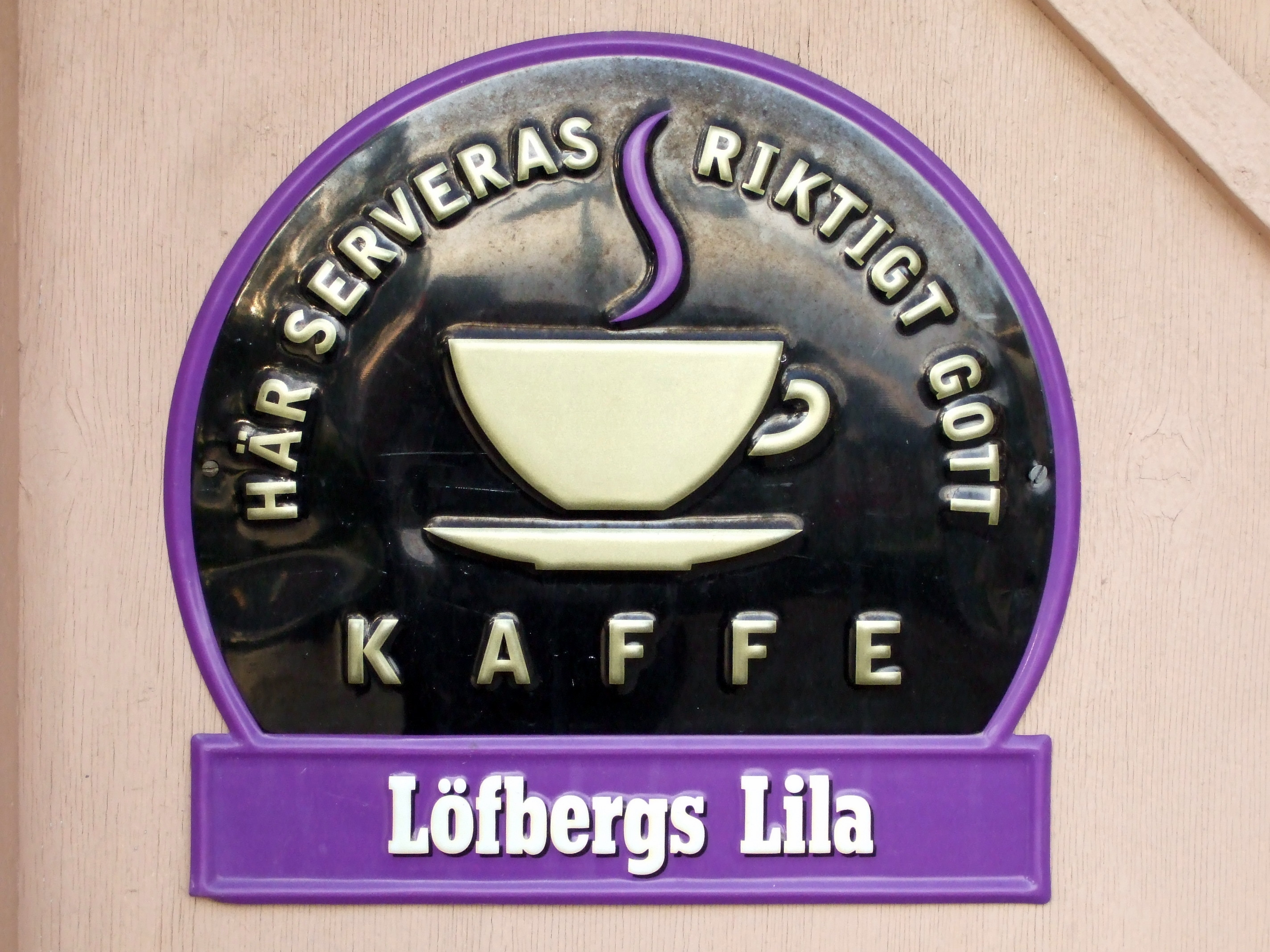 A Löfbergs Lila sign outside a café in Dorotea, Sweden